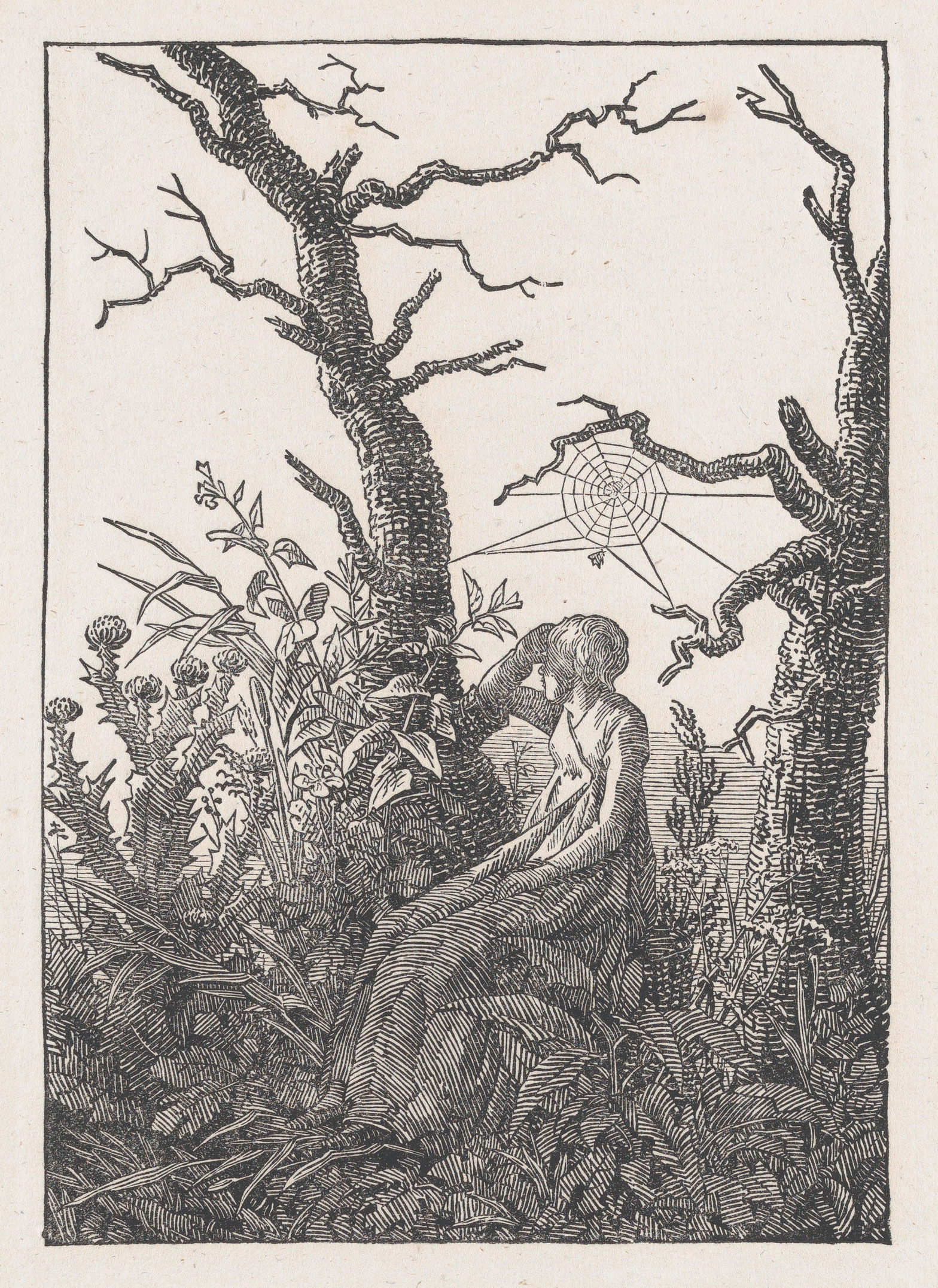 Print; Prints